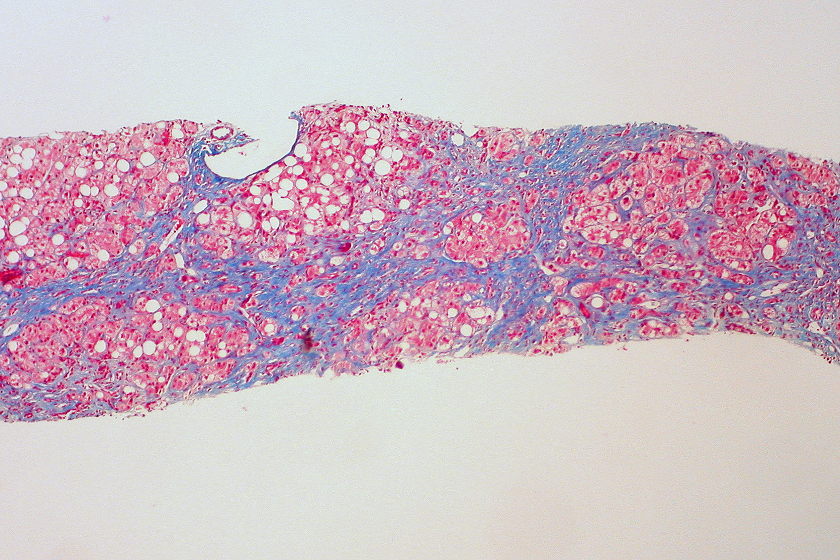 Trichrome stain Pathological and histological images courtesy of Ed Uthman at flickr.